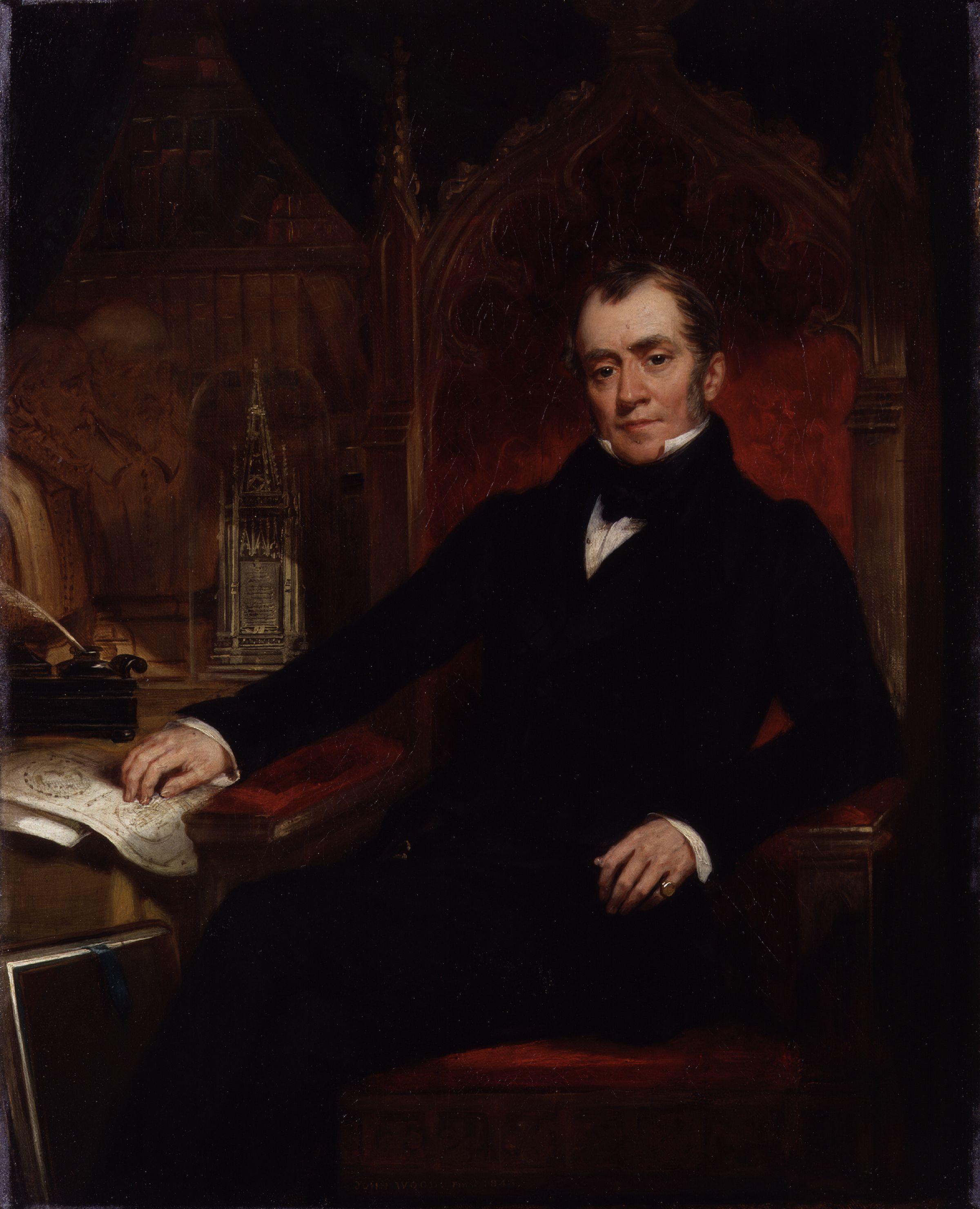 All images in this batch have been confirmed as author died before 1939 according to the official death date listed by the NPG. , given to the National Portrait Gallery, London in 1882.